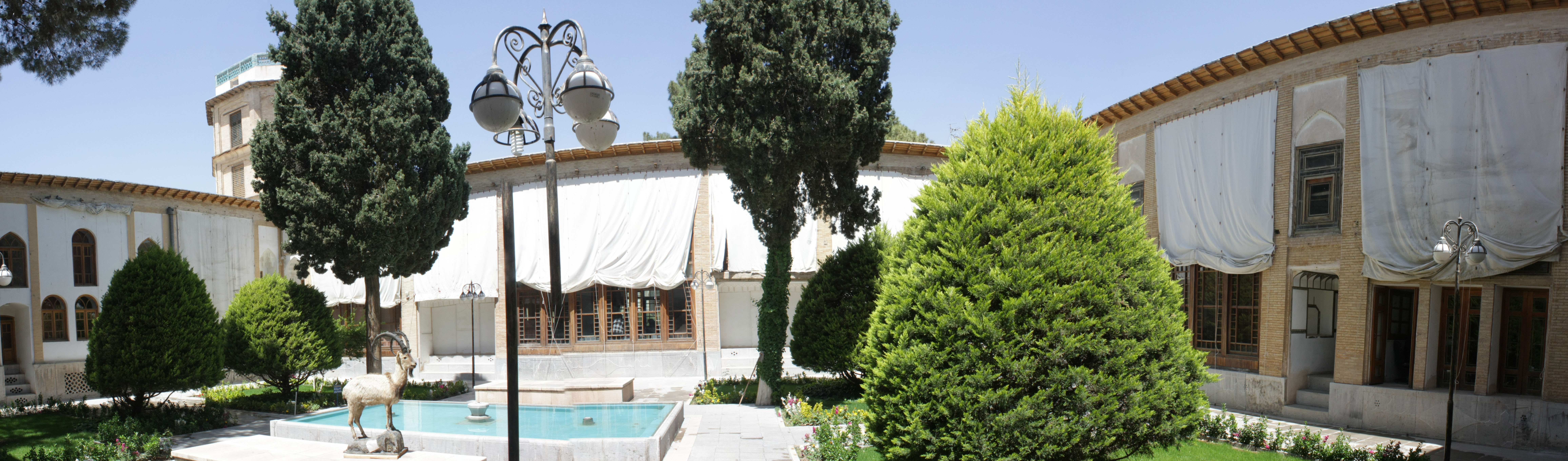 Char Bagh palace exterior